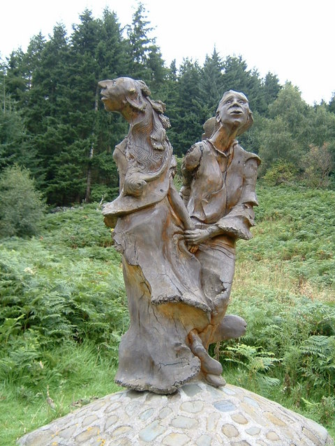 Muckle Mou'd Meg A striking wooden sculpture of the central figure in a local story of the 17th century - marriage to Meg was offered as an alternative to the gallows for Willie Scott who had attempted to steal cattle. They lived happily ever after and Sir Walter Scott is said to have been a descendant.